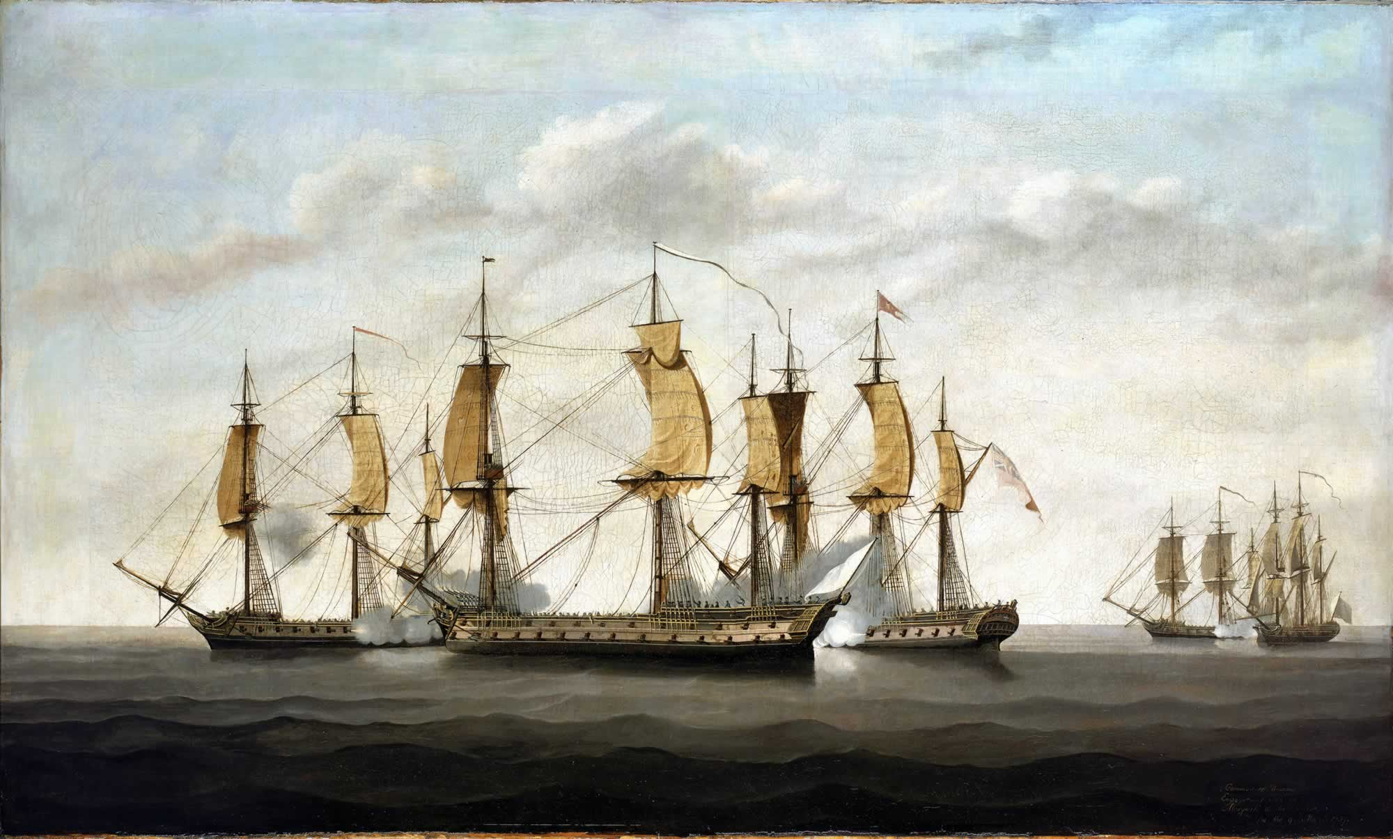 Engagement between three East Indiamen and two French vessels, 8 March 1757